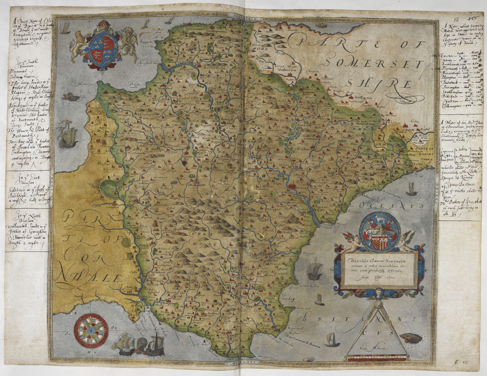 Printed map of Devon, dated 1575, with marginal notes by Lord Burghley relating to the defence of the county